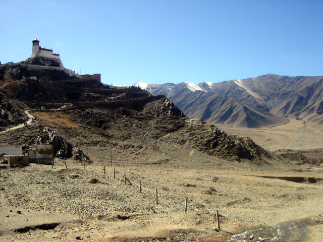 Yumbu Lhakhang,the first palace of Tibet